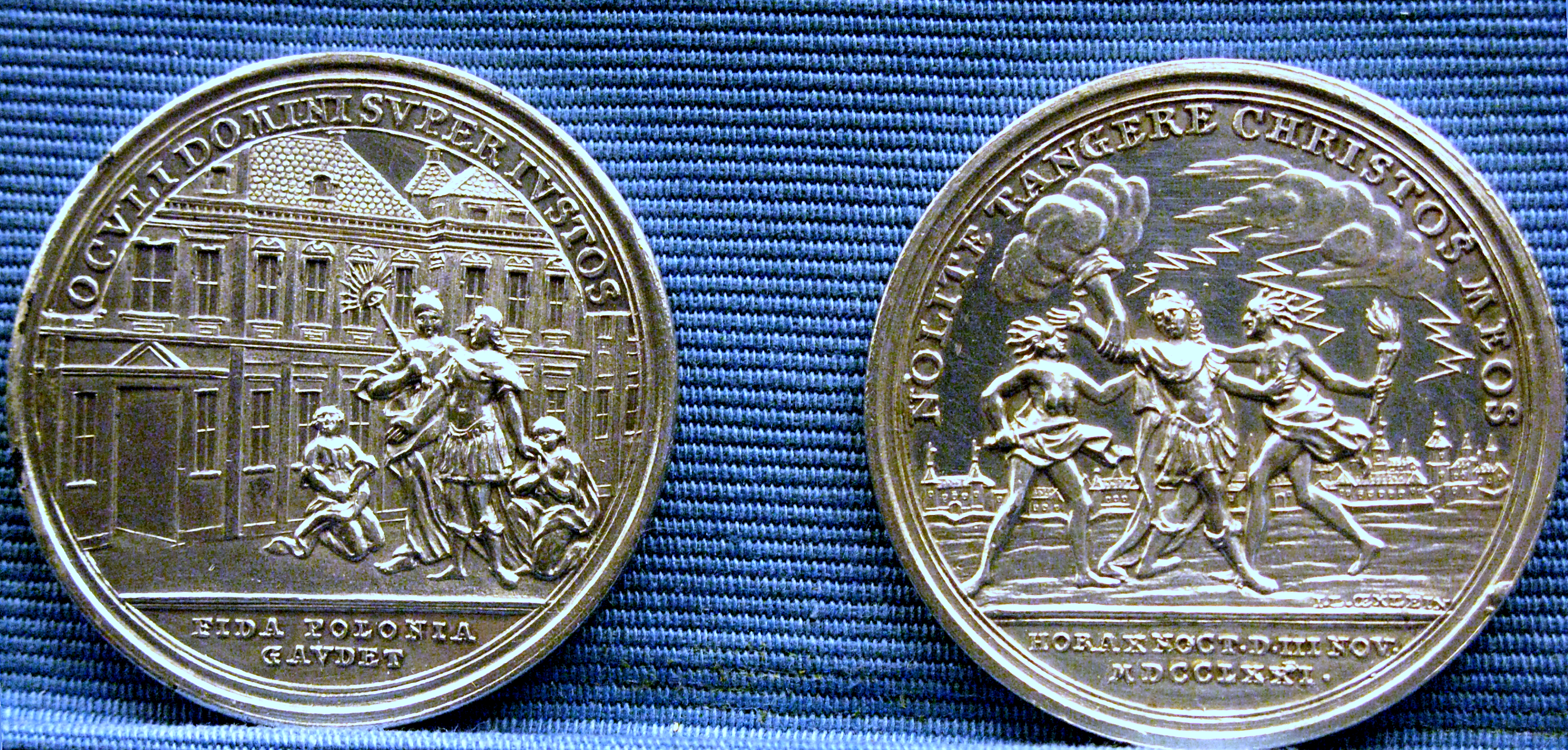 Medal commemorating hijacking of Stanislaus August Poniatowski by Bar cOnfederates in 1771